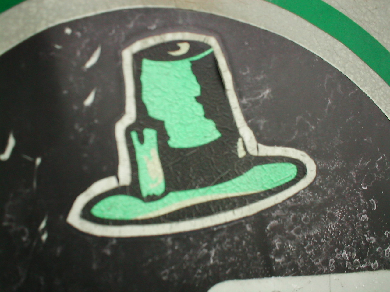 A closeup of the Mass Pike hat on an old shield for the Sumner Tunnel.